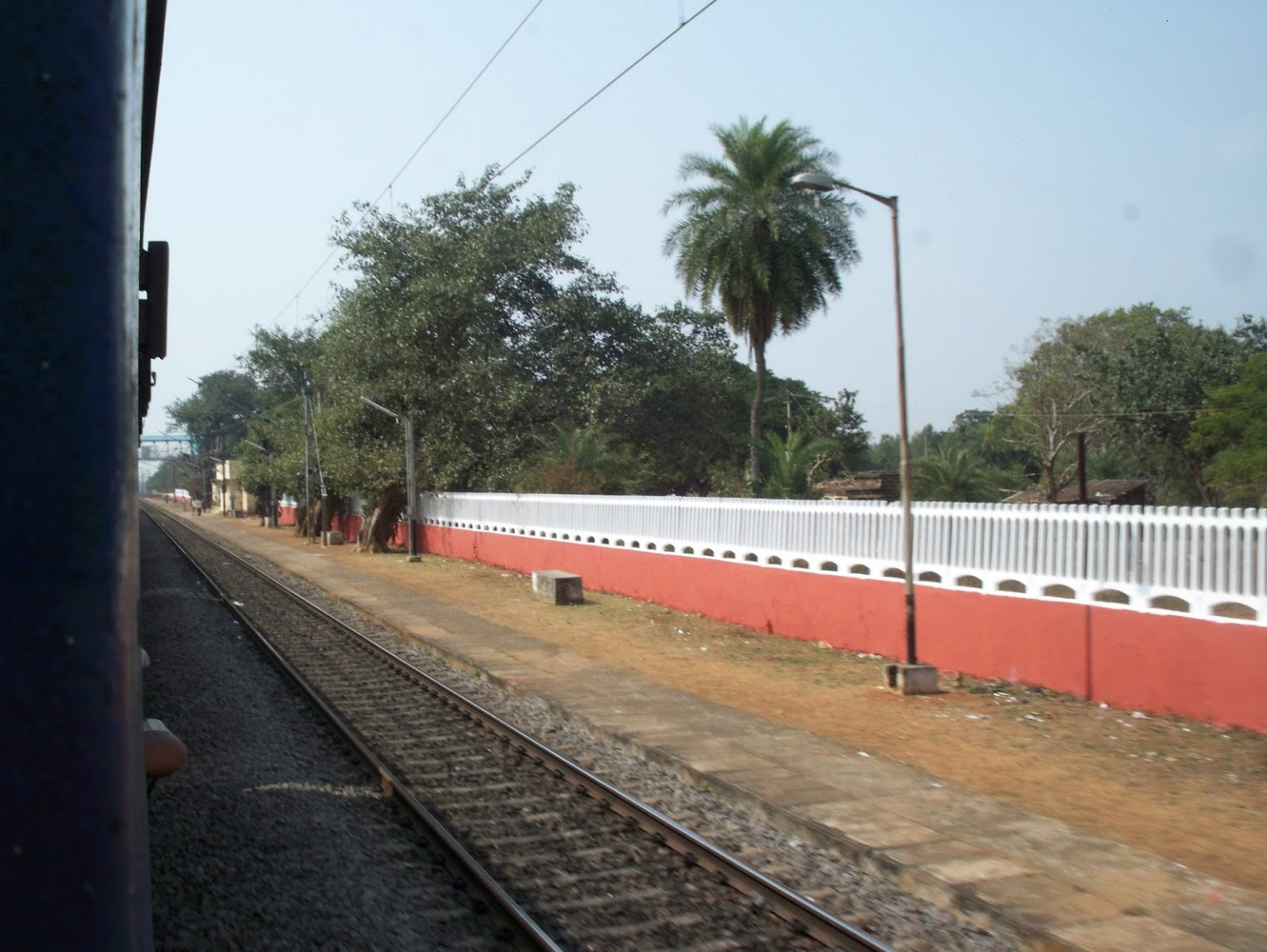 This is the Picture of Kuhuri railway station